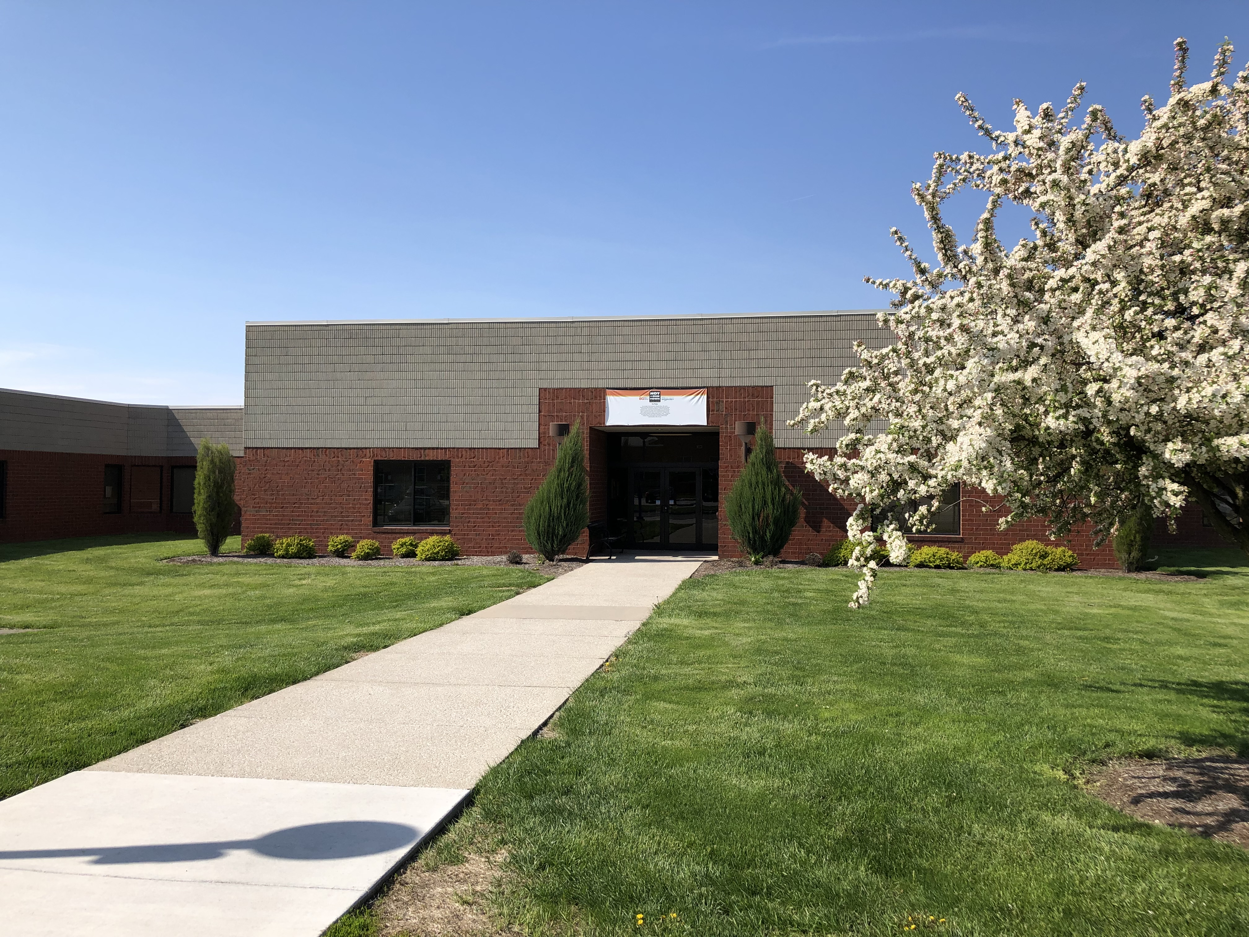 The College Park office building at BGSU.